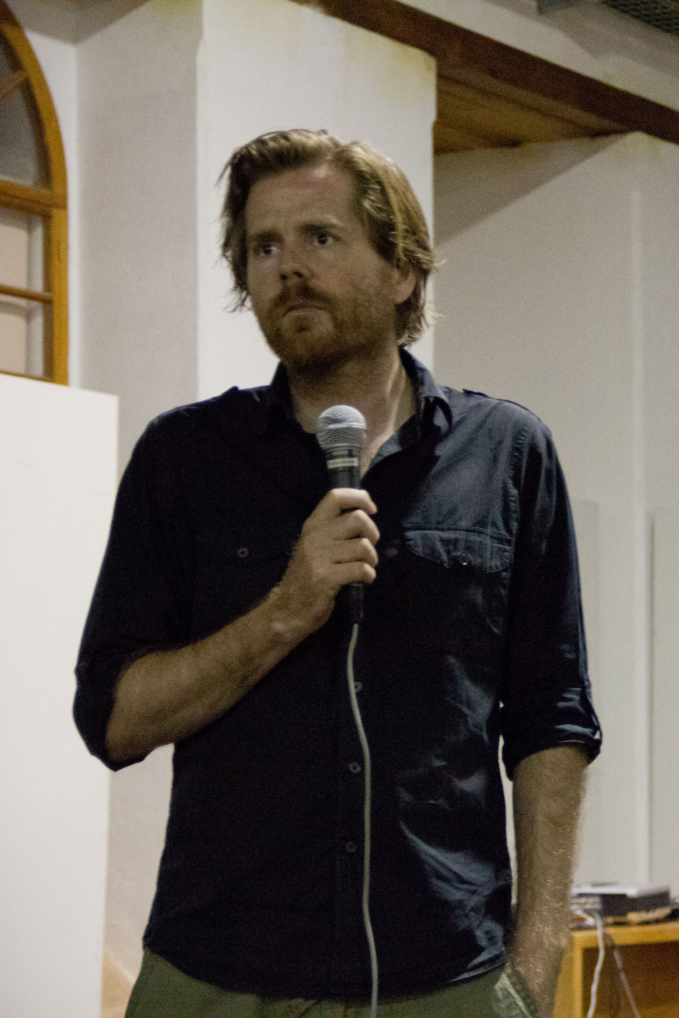 Janus Metz at a screening of documentary Armadillo in Oaxaca, Mexico, on 2011. Picture by JLV / Festival Ambulante.